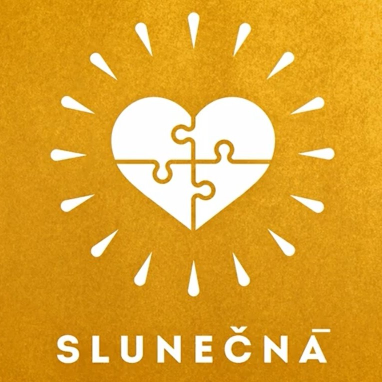 Logo from the television program Slunečná